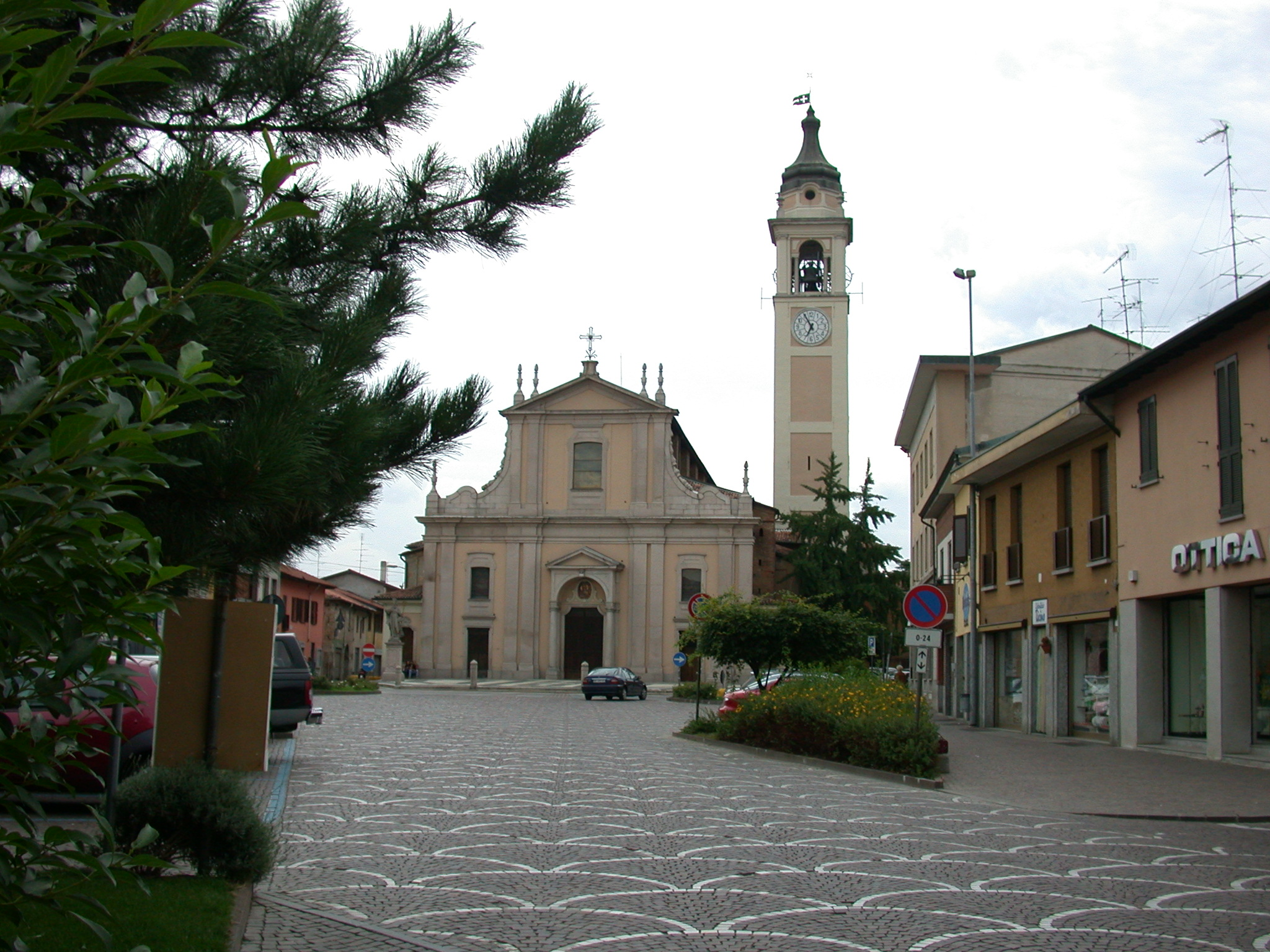 Castano Primo, MI, Italy - Piazza Mazzini and the San Zenone church